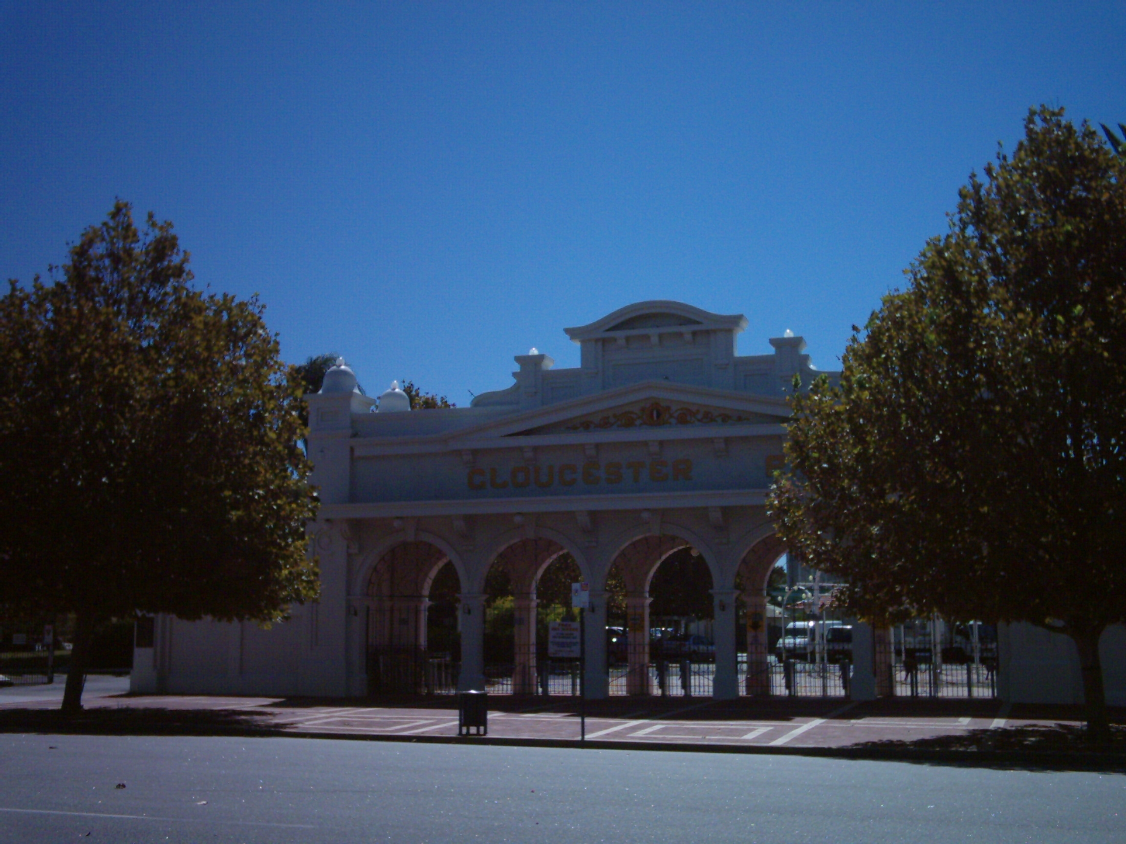 Entrance Gates to Gloucester Park.